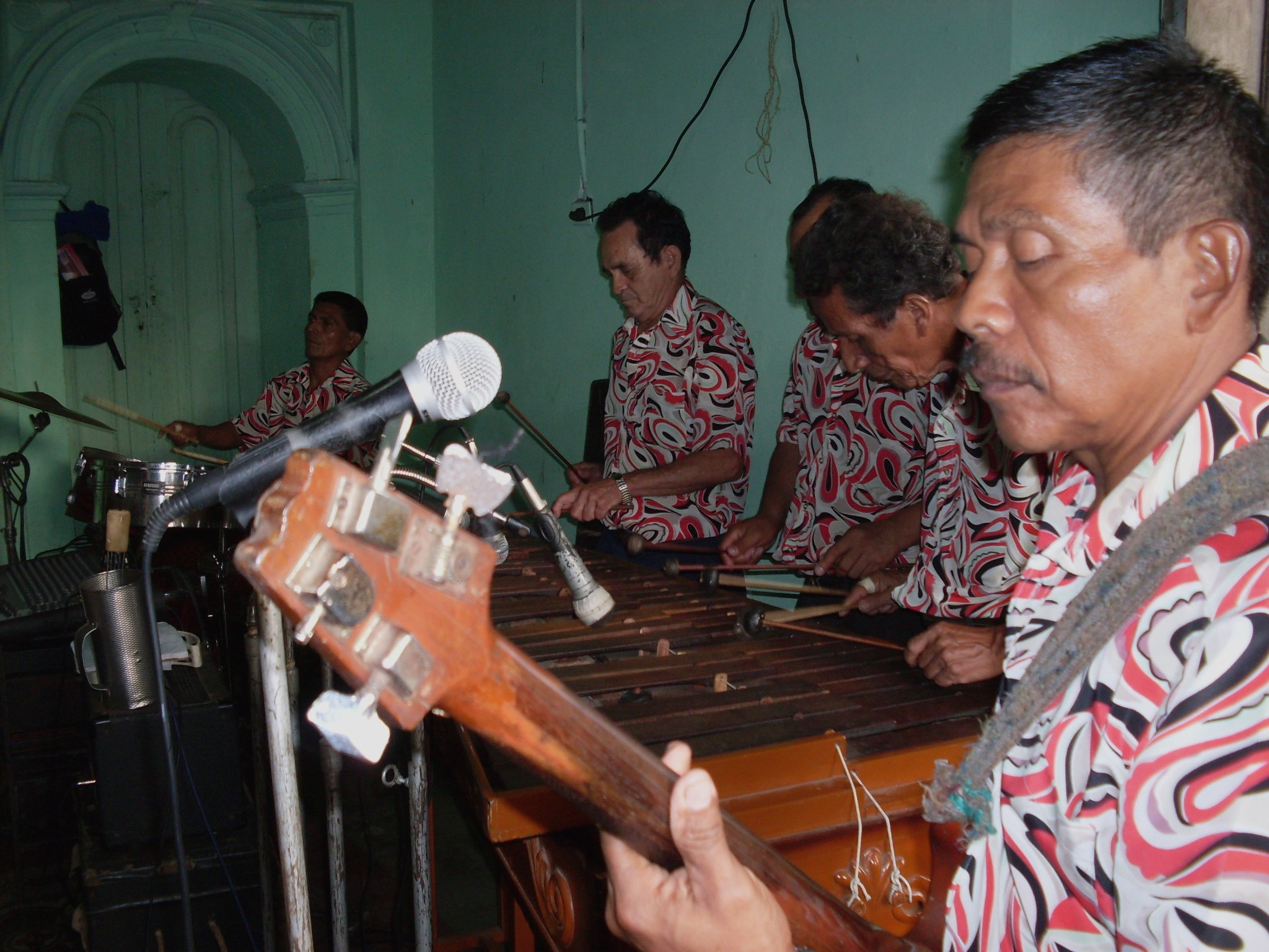 Musical group performing during a local Cofradia celebration in Nahuizalco, El Salvador.